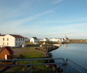 A village in northeast Iceland. Picture from 2008.